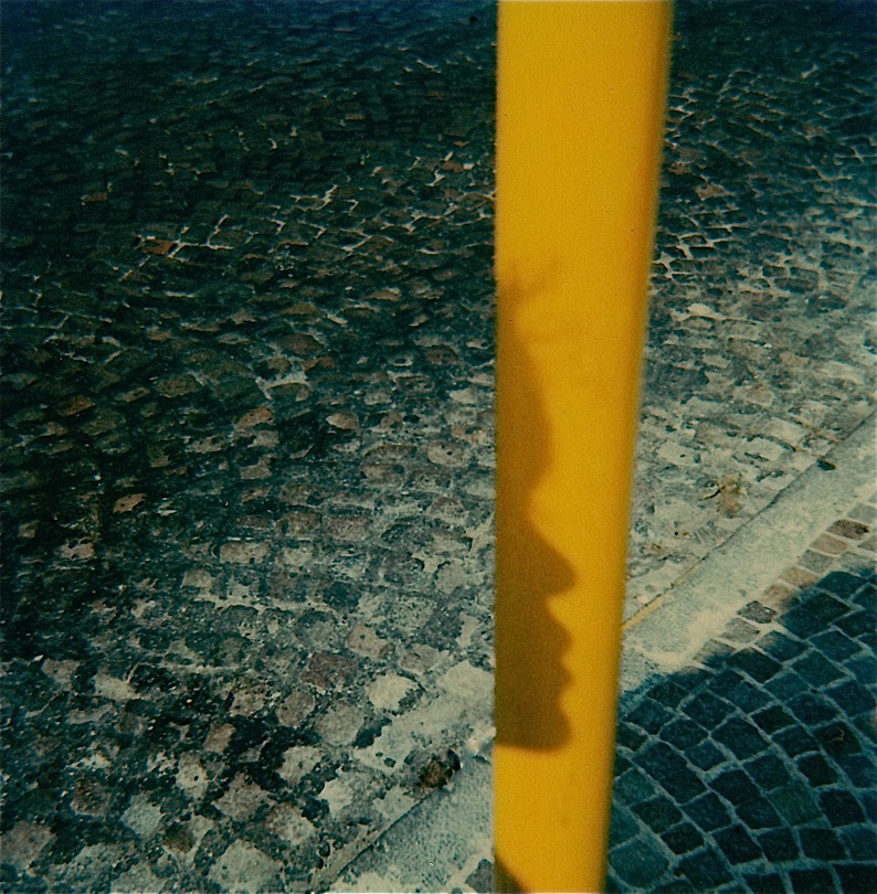 Polaroid sx 70 - Augusto De Luca photographer